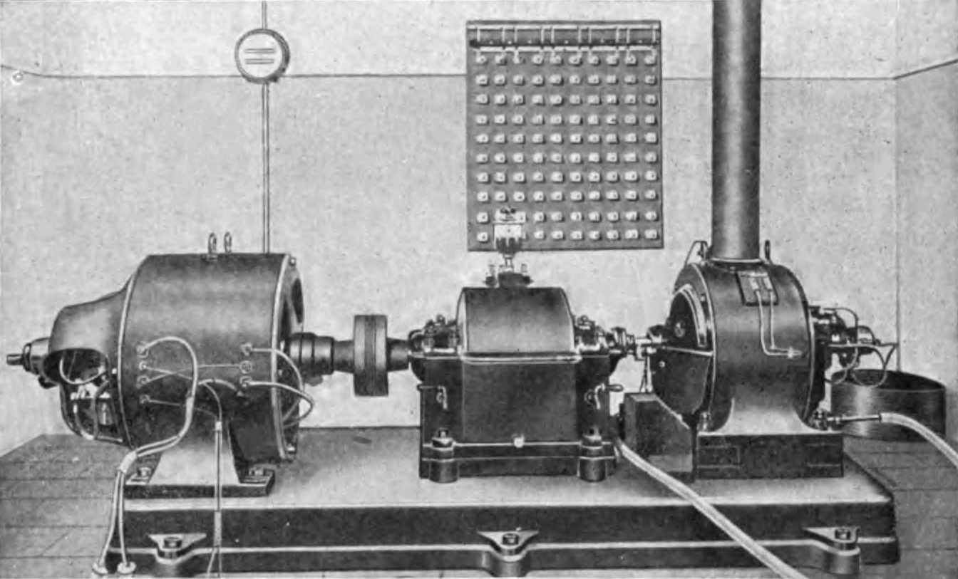 A Goldschmidt alternator, a rotating machine developed in 1908 by Rudolph Goldschmidt for use as a radio transmitter. This example has an output power of 12.5 kW and efficiency of 80% at a frequency of 30 kHz, and 8 to 10 kW at a frequency of 60 kHz. It was installed 1910 by C. Lorentz Co. at their Eberswald wireless station. It consists of a DC motor (left) which drives the alternator (right) through a geartrain (center). In order to produce high frequencies the alternator rotor and stator have a large number of poles, usually 200 to 400. The unique advantage of the Goldschmidt machine was that its rotor and stator were connected to tuned circuits - "reflector circuits" (capacitor bank visible on back wall) - which caused the machine to produce its output power at a multiple (harmonic) of its rotational rate, so it could produce high frequencies without the high rotational speed that the Alexanderson alternator required. The crosshatch (stripe) pattern in the background is not a part of the original image but an aliasing artifact introduced by scanning of the original halftone photo.